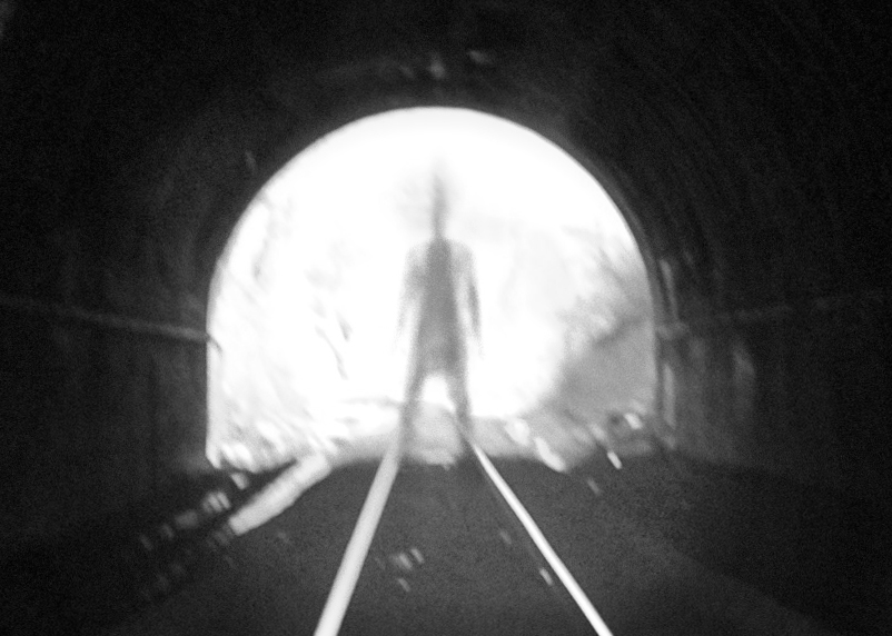 Peeping Tom at the end of Illchester Tunnel in Ellicott City, Maryland.